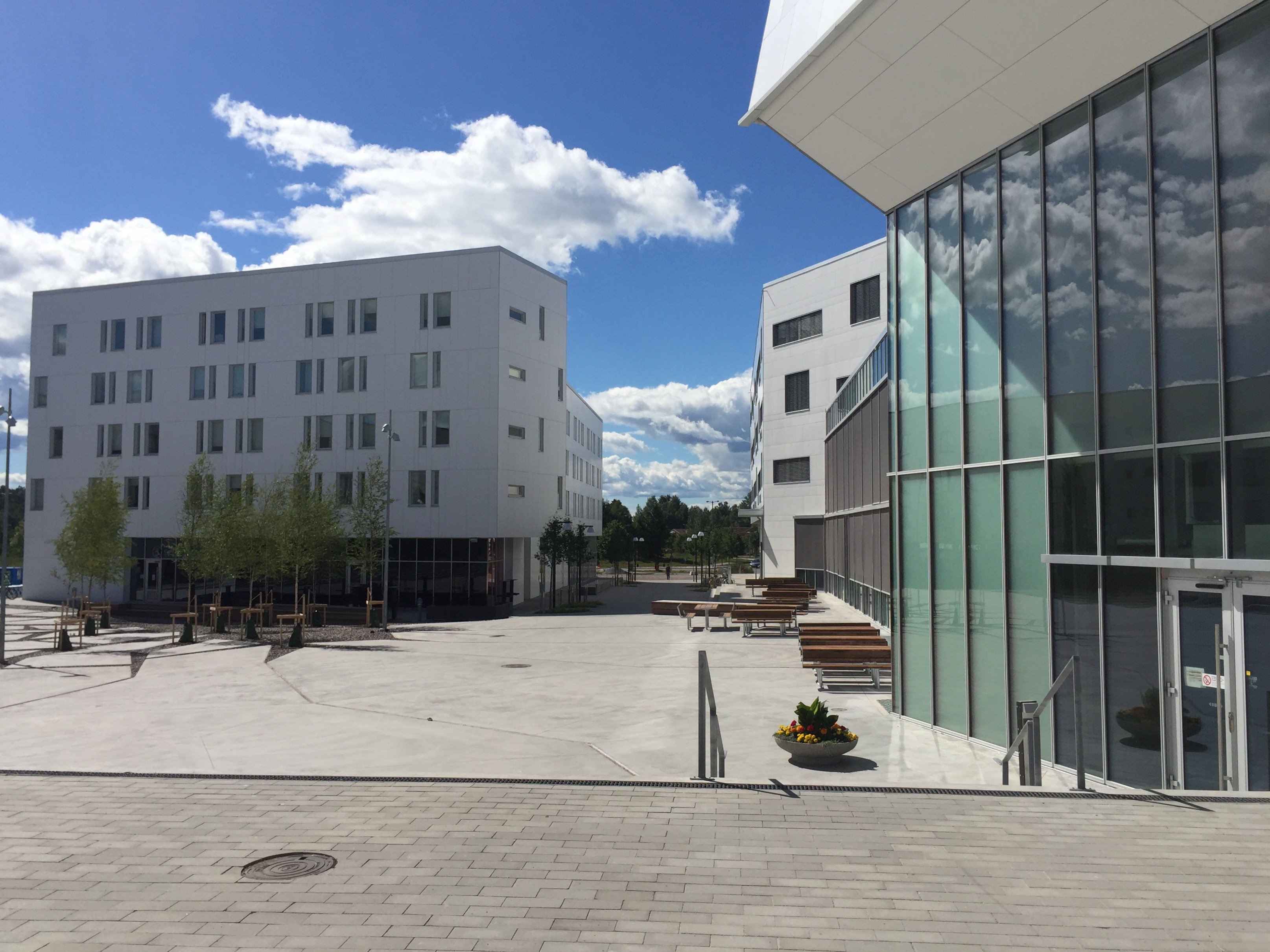 Campus square, Nova House, Örebro University